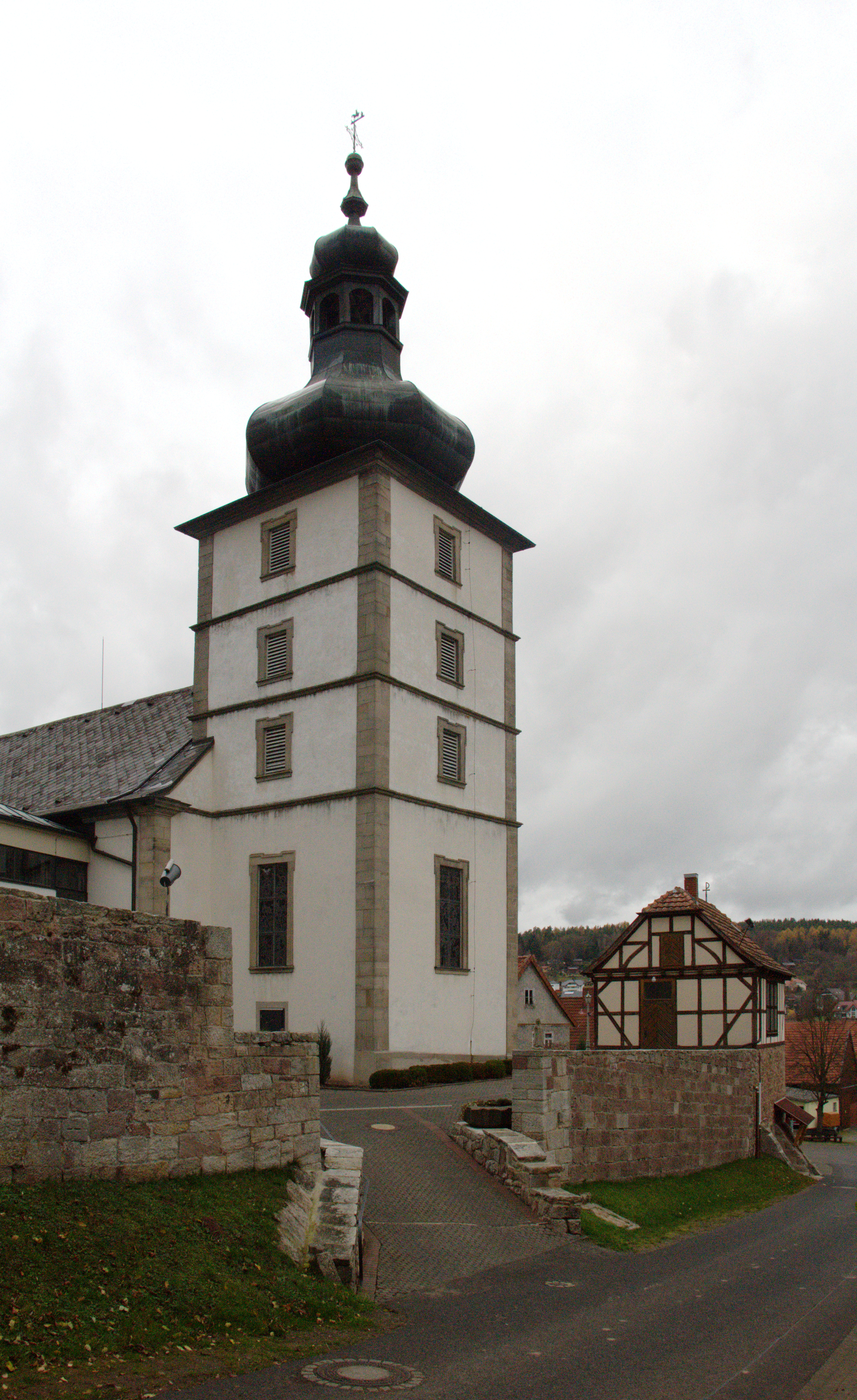 Catholic Church in Schmalnau, Ebersburg , Hesse, Germany